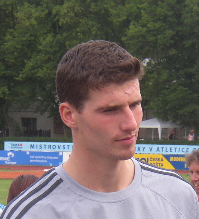 Jaroslav Bába (Czech athlete - high jump) at 2005 Championships of the Czech Republic in athletics, Sletiště Stadium in Kladno, Czech Republic.